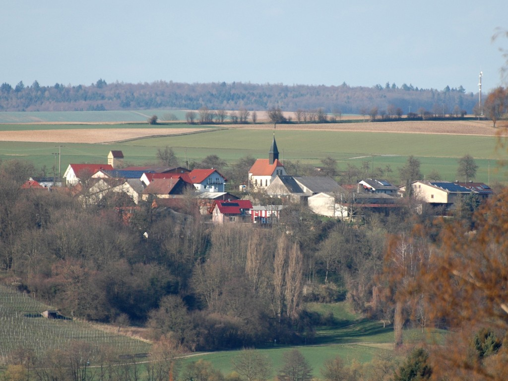 Buchhof of Neuenstadt, as seen from the Neuberg in Oedheim